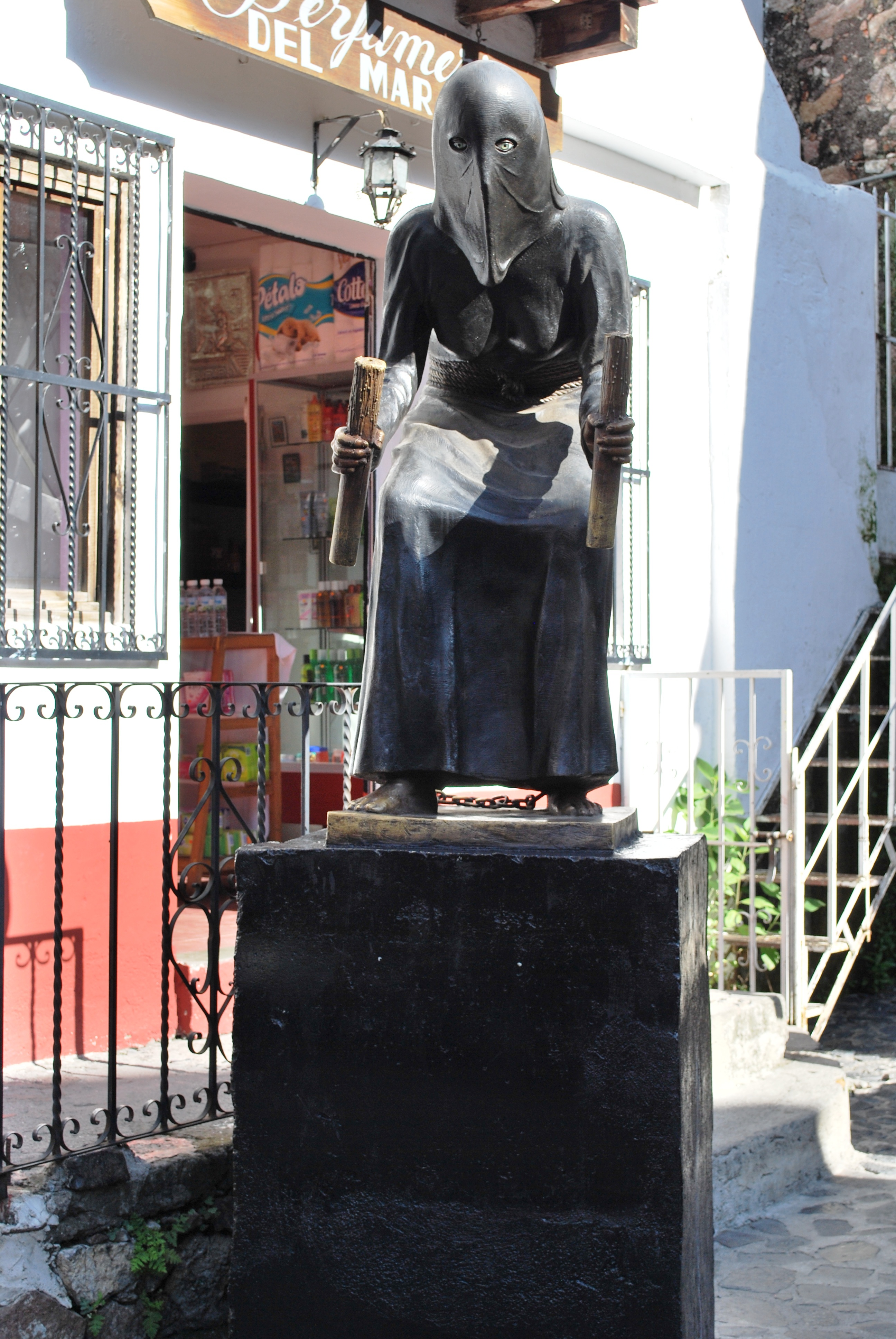 One of the sculptures by Carlos Millán Gómez behind the Church of the ex monastery of San Bernadino in Taxco de Alarcón, Guerrero, Mexico